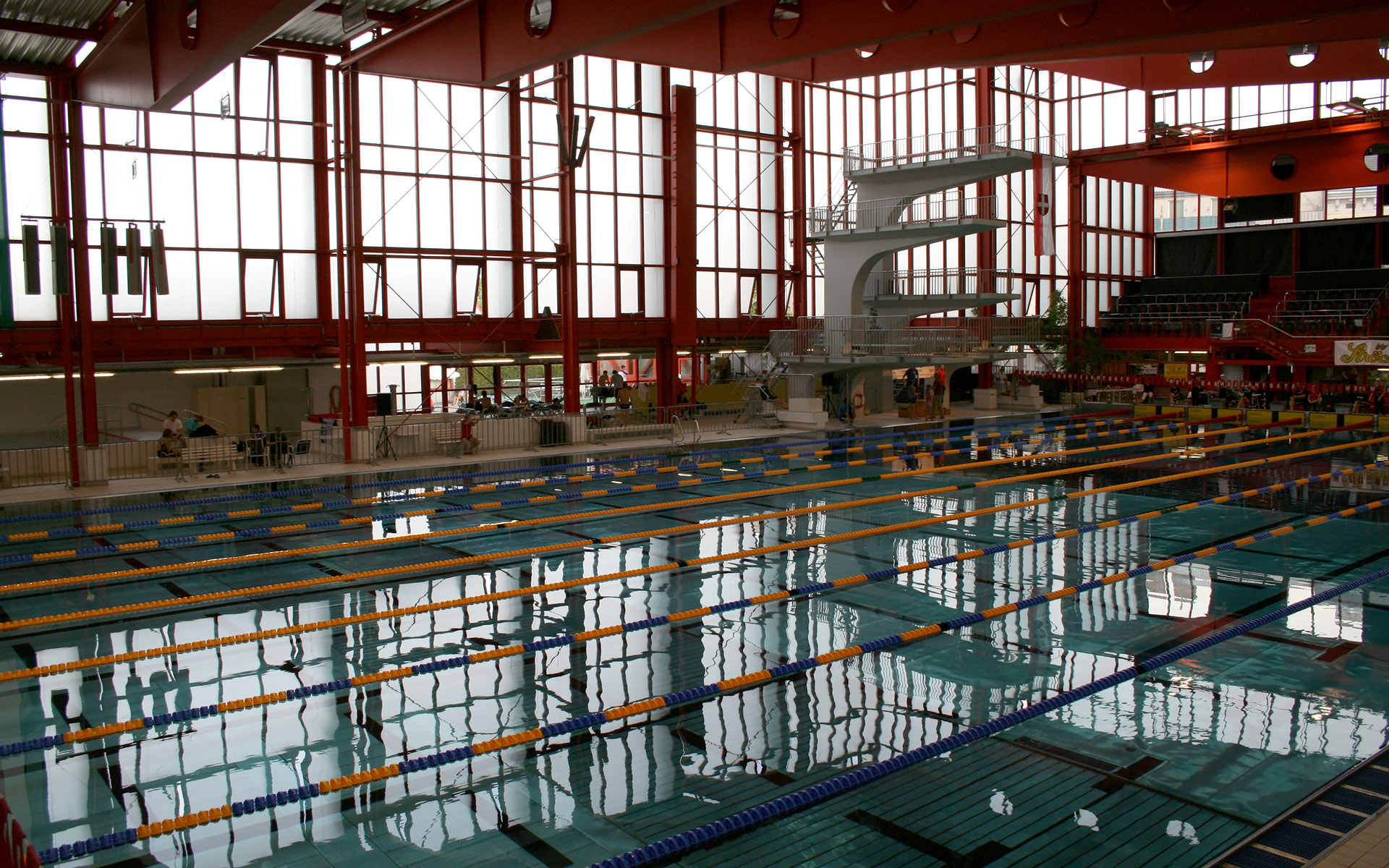 Stadthallenbad/Wiener Stadthalle (Vienna).